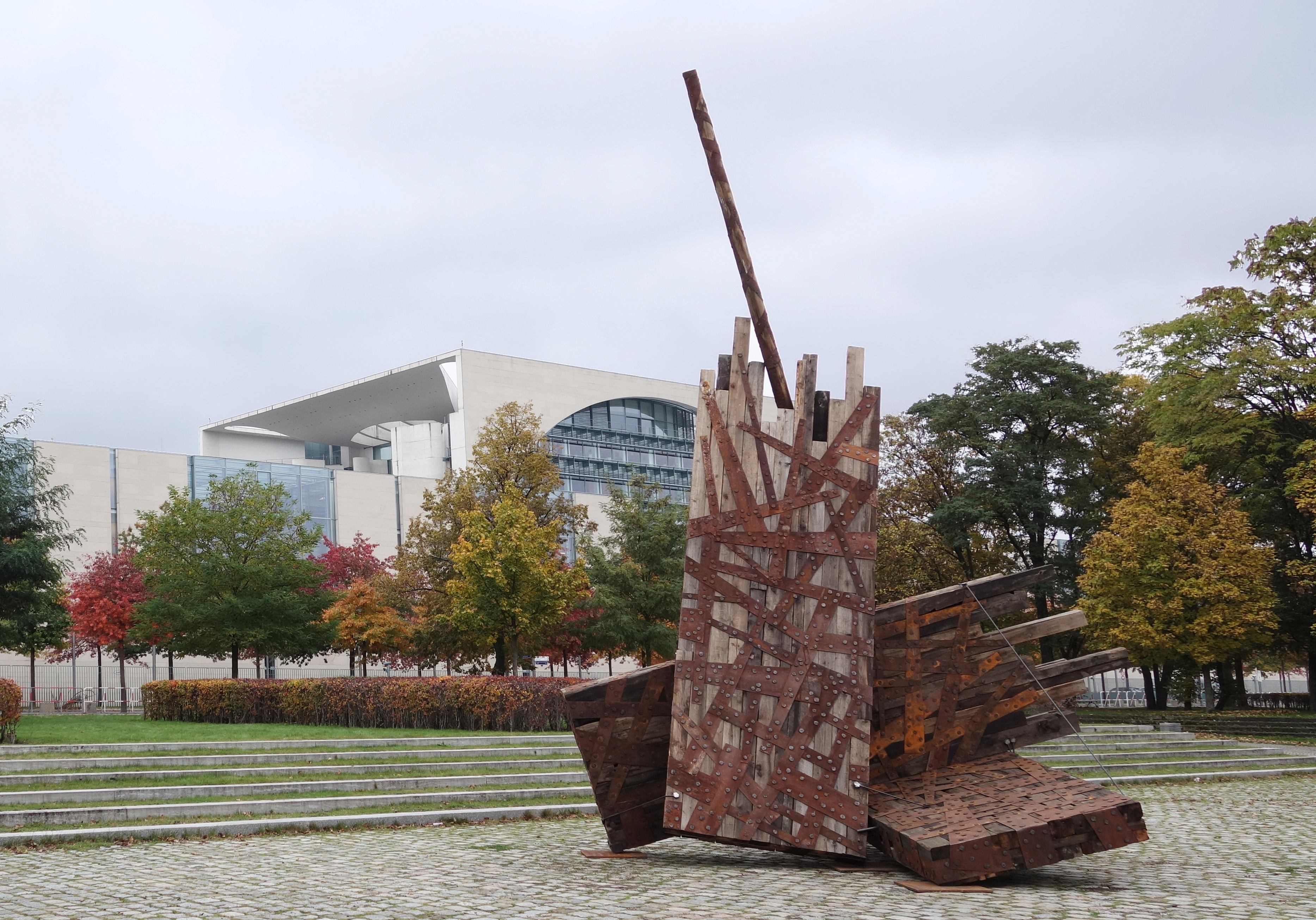 Art work "Odyssee" by the artist Georg Friedrich Wolf in Berlin-Tiergarten - at background the "Bundeskanzleramt" - October 2016